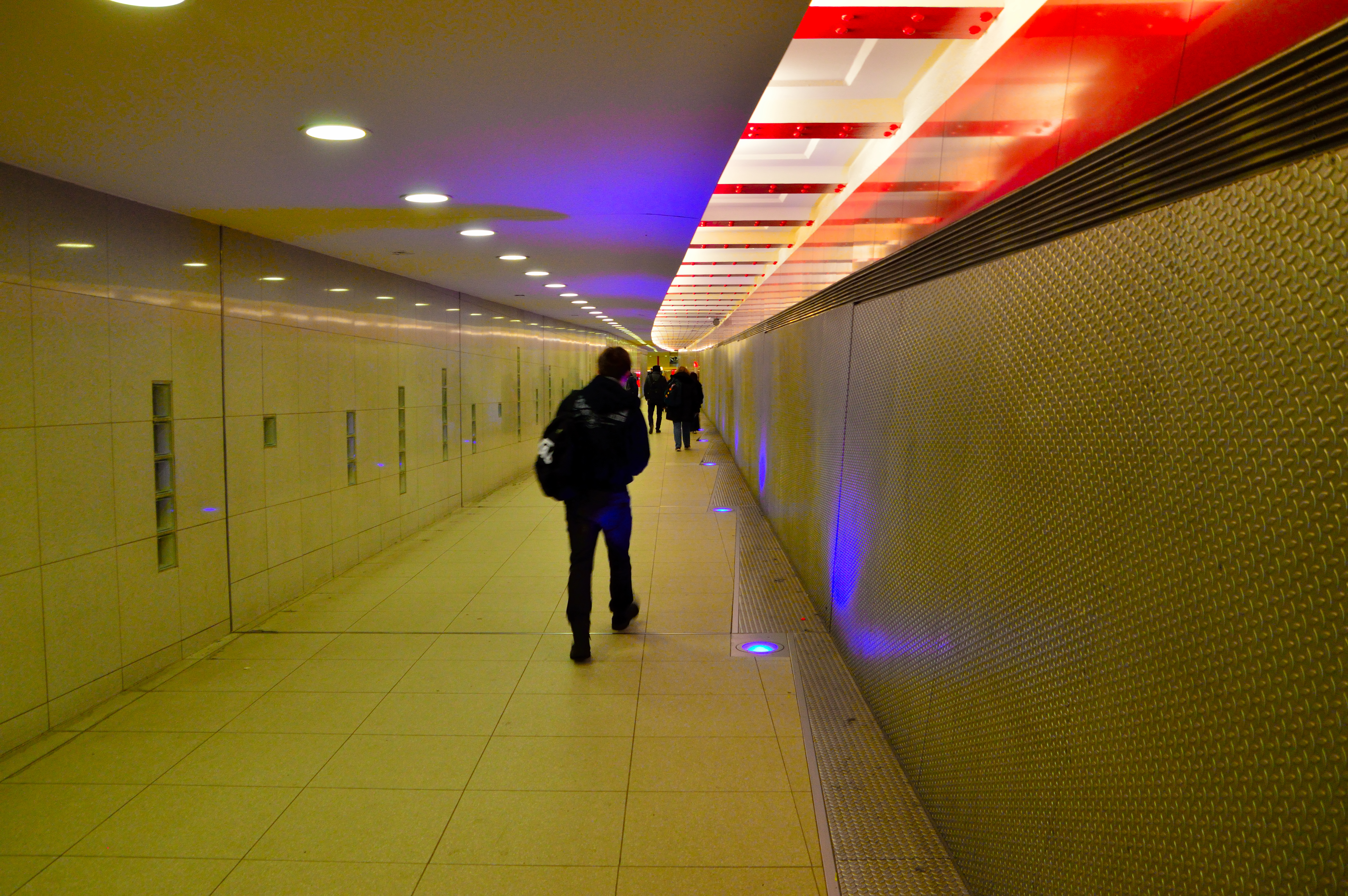 Passengers transferring between the Berlin U2 line and the U6 line walking through a 160-m-long connecting pedestrian tunnel, popularly known by Berliners as the “mouse route” (Mäusetunnel). In 1999, the tunnel was clad with stainless steel plates and sandstone slabs and a new lighting system was installed.